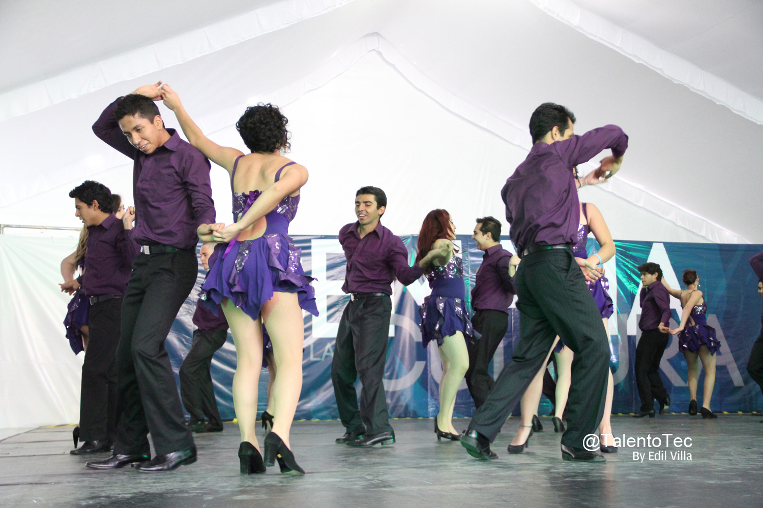 Student performers of "Salsa" at "Semana de la cutura" in ITESM CCM.